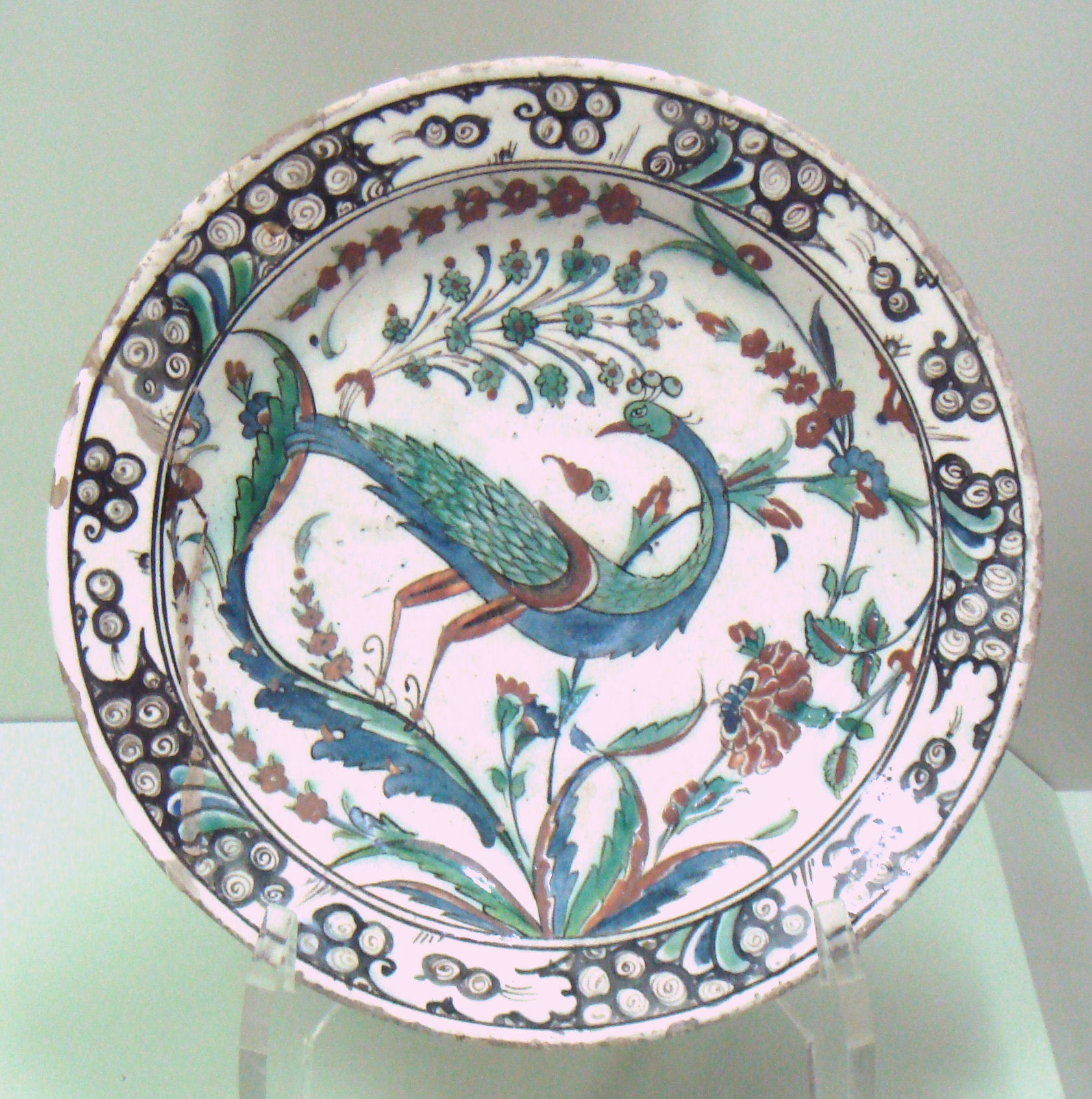 Iznik_polychrome_ware_with_animal_late_16th_early_17th_century.